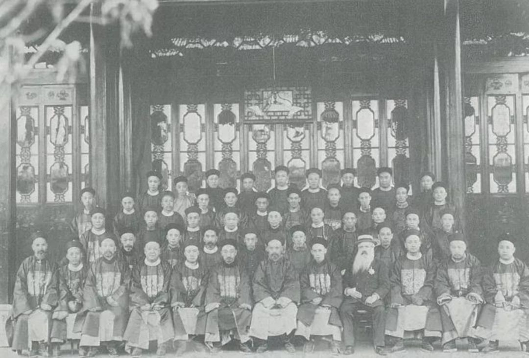 Photo of staff at the Canton Mint (廣東造幣廠) aka Kwangtung Mint taken around 1900. Front and center is Viceroy Zhang Zhidong. Second on his right is Chief of the Operative Department Edward Wyon.